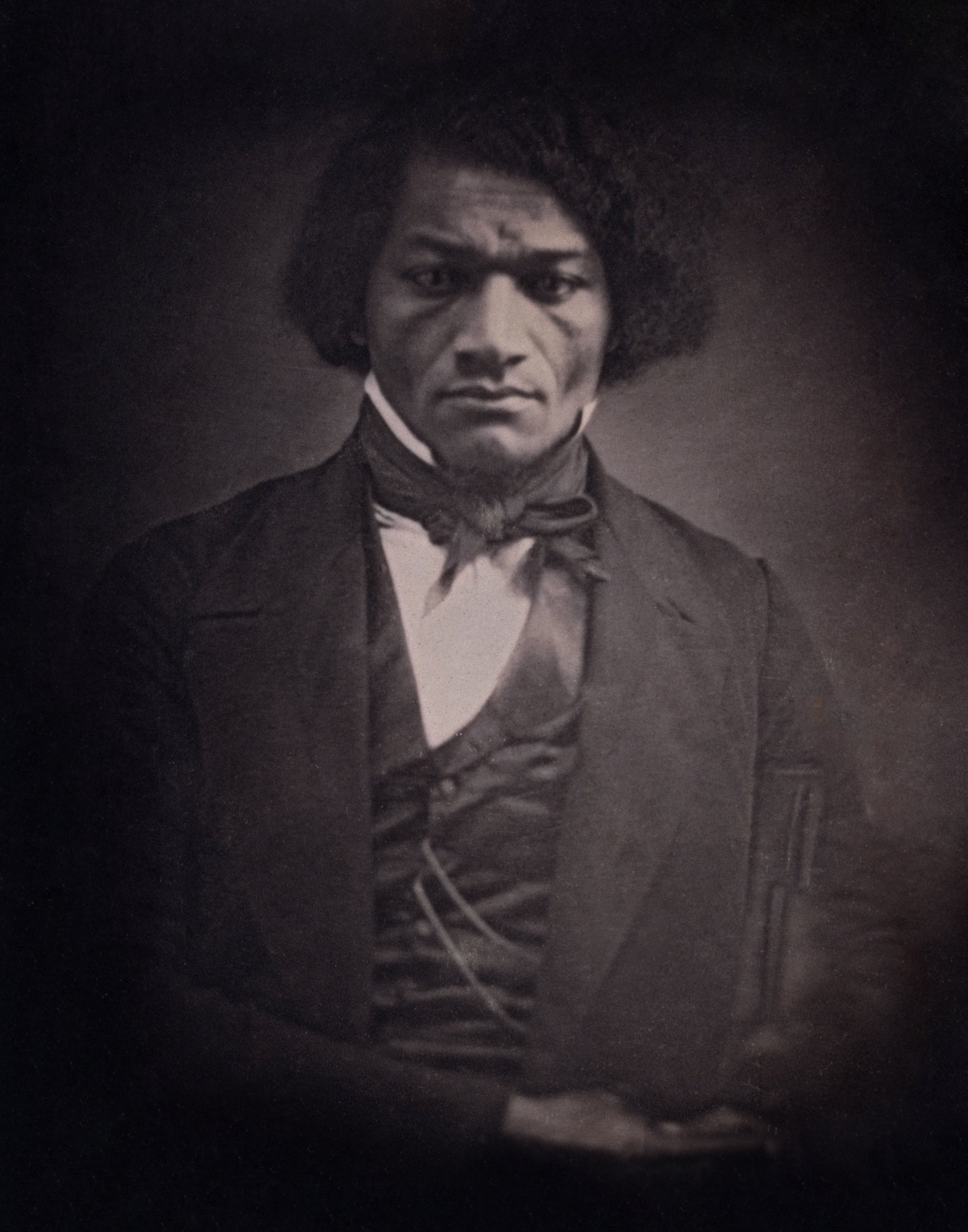 Sixth-plate daguerreotype of Frederick Douglass